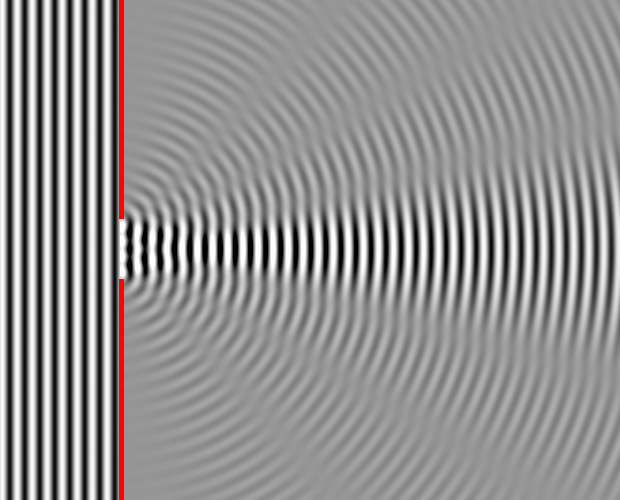 Made this myself by numerical simulation in matlab. Approximate diffraction pattern of a single 4-wavelength-wide slit.